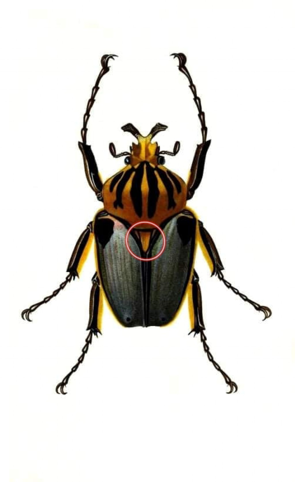 The scutellum (inside the circle) of the Coleoptera Scarabaeidae beetle Goliathus cacicus (Olivier 1789)[1]. Goliathus cacicus, or the Goliath "opale", can exceed 90 mm in length. Obviously this is the maximum, because some of these coleoptera are only 40 mm. It depends on the conditions under which the larva has developed. The elytra of this Goliath has an opaque or pearly reflection that the illustration does not yet allow to copy completely. The Goliath "opale" lives in Côte d'Ivoire, Ghana and Guinea. in Africa.